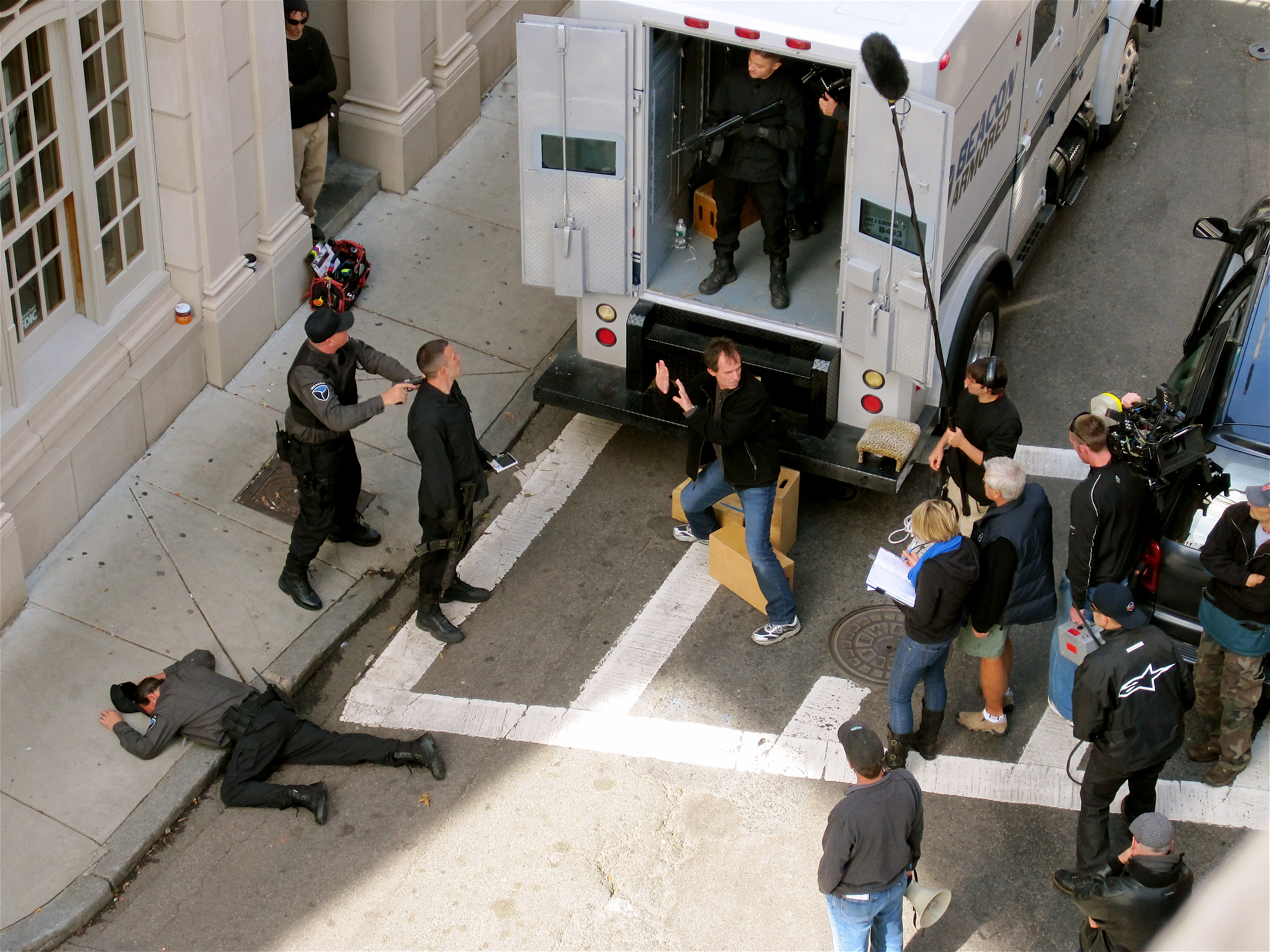 Ben Affleck filming The Town.